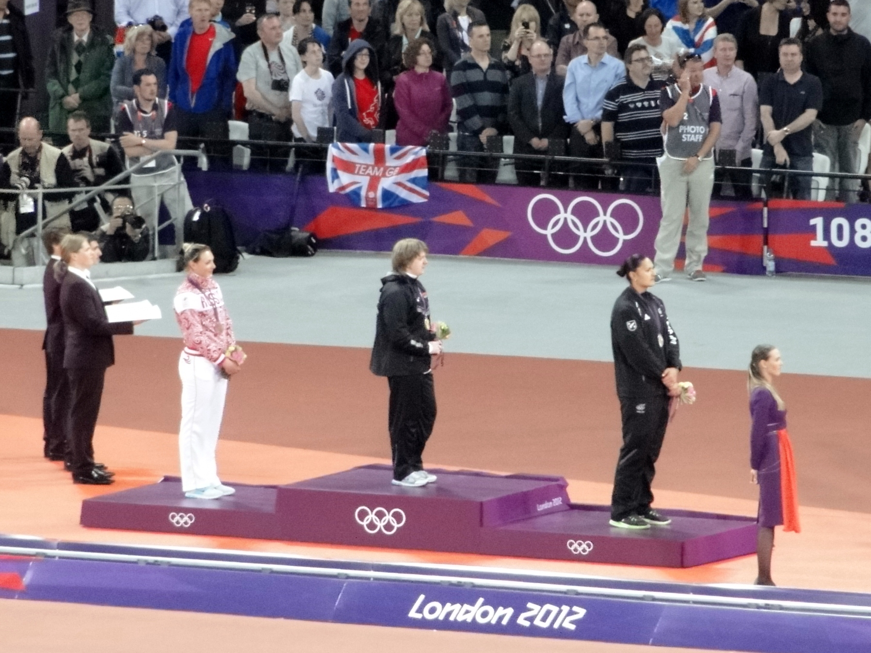 (l-r) Yevegeniye Kolodka, Nadzeya Ostapchuk and Valerie Adams at the medal ceremony for the women's shot put, Olympics, London 2012.